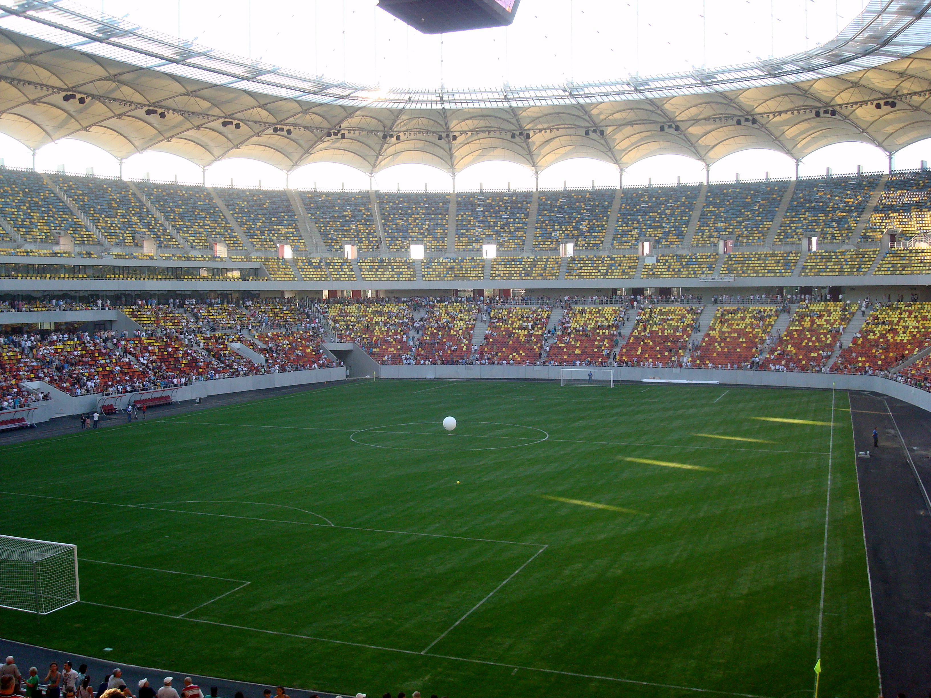 Romania National Stadium in the opening day (6 August 2011)